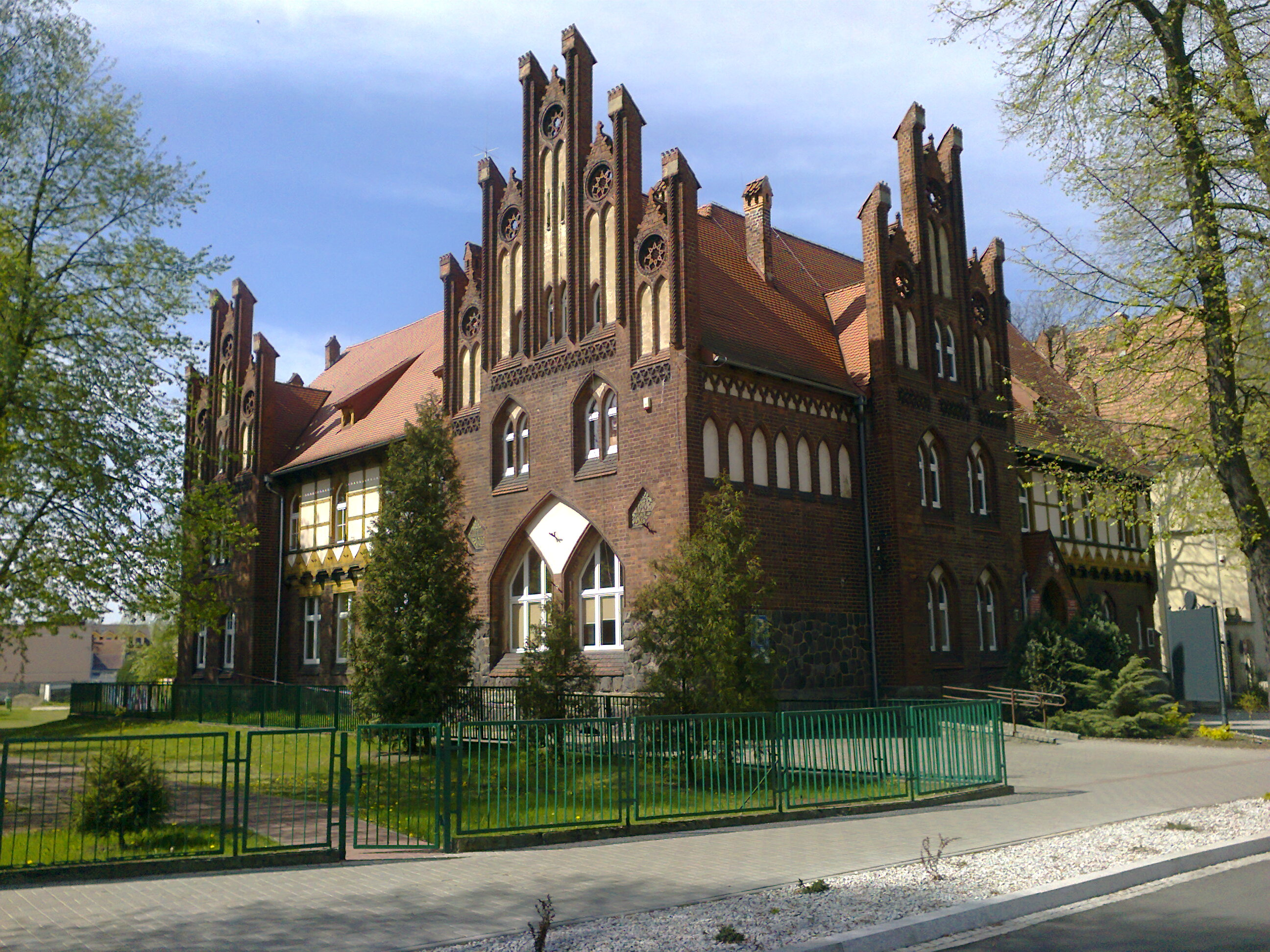 Powiat building in Grodzisk Wielkopolski (Poland)